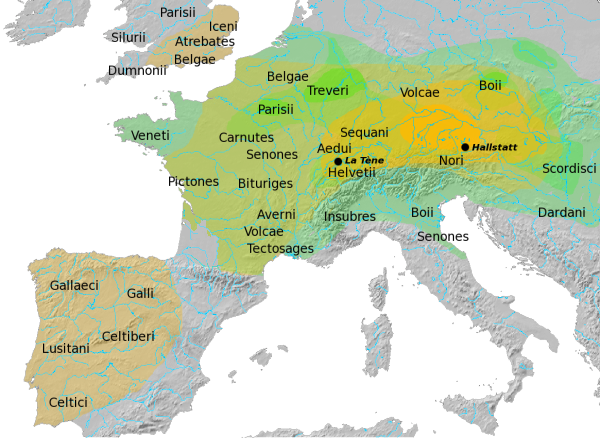 Overview map of the Hallstatt (yellow) and La Tène (green) cultures. After Atlas of the Celtic World, by John Haywood; London Thames & Hudson Ltd., 2001, pp. 30-37. Map update desirable, see here for discussion.